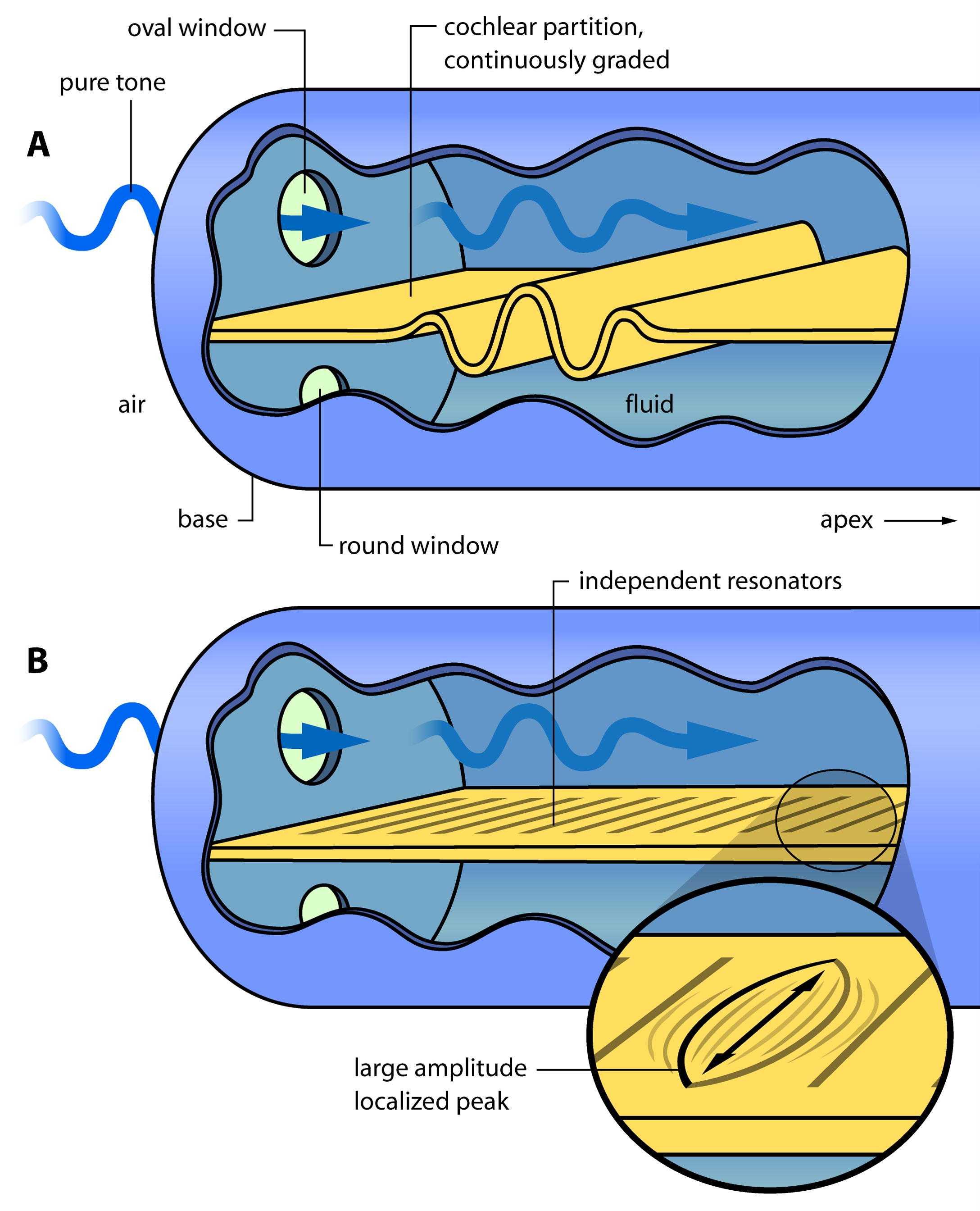 The cochlea, shown uncoiled, is filled with liquid. In the accepted travelling wave picture (A), the partition vibrates up and down like a flicked rope, and a wave of displacement sweeps from base (high frequencies) to apex (low frequencies). Where the wave broadly peaks depends on frequency. An alternative resonance view (B) is that independent elements on the partition can vibrate side to side in sympathy with incoming sound. It remains open whether the resonant elements are set off by a travelling wave (giving a hybrid picture) or directly by sound pressure in the liquid (resonance alone).